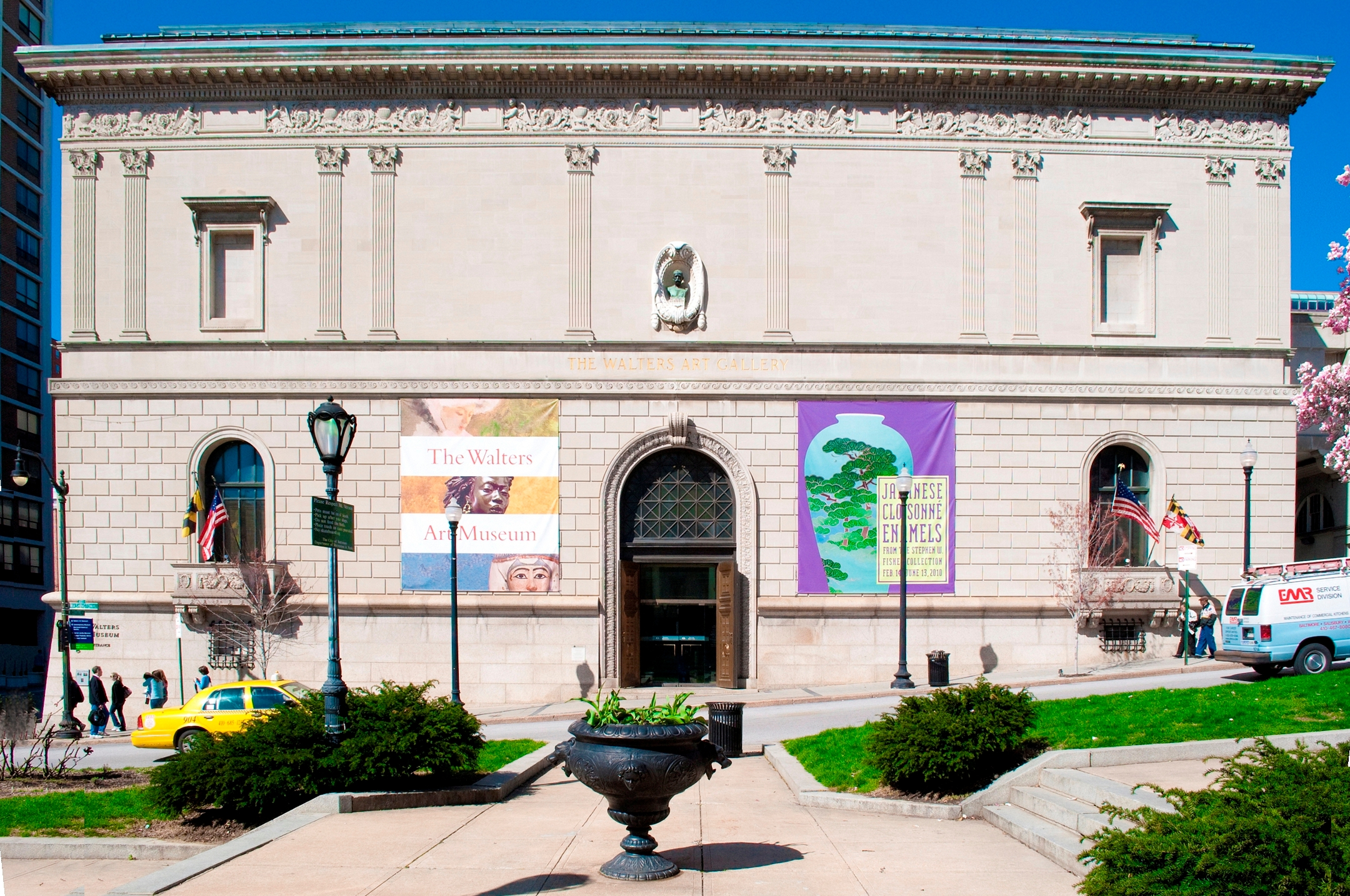 Photograph of the Charles Street entrance to the Walters Art Museum, as seen from the south quad of the Mount Vernon Park, in Baltimore, Maryland.